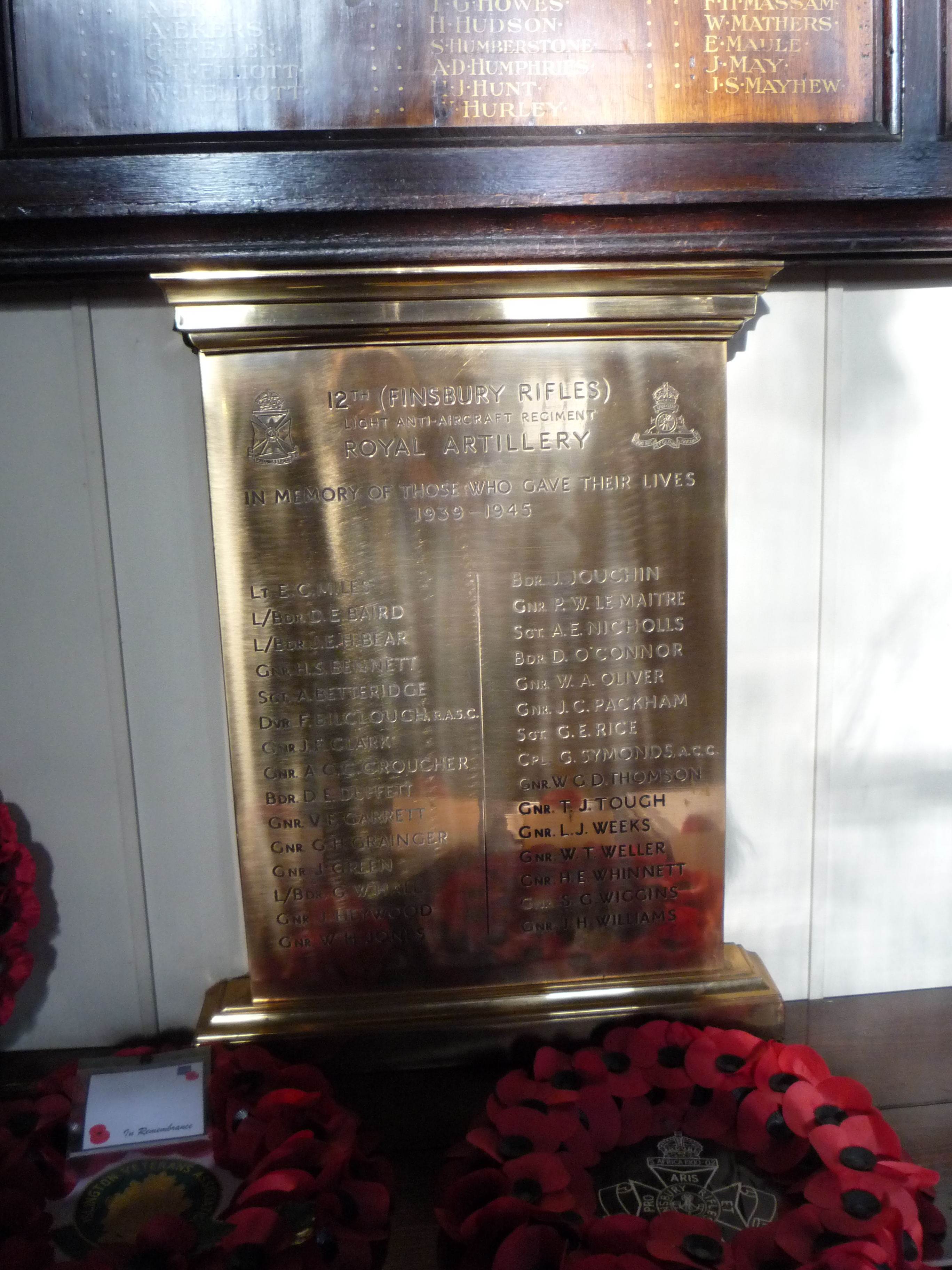 The war memorial to 12th (Finsbury Rifles) Light Anti-Aircraft Regiment in St Mark's Church, Myddelton Square